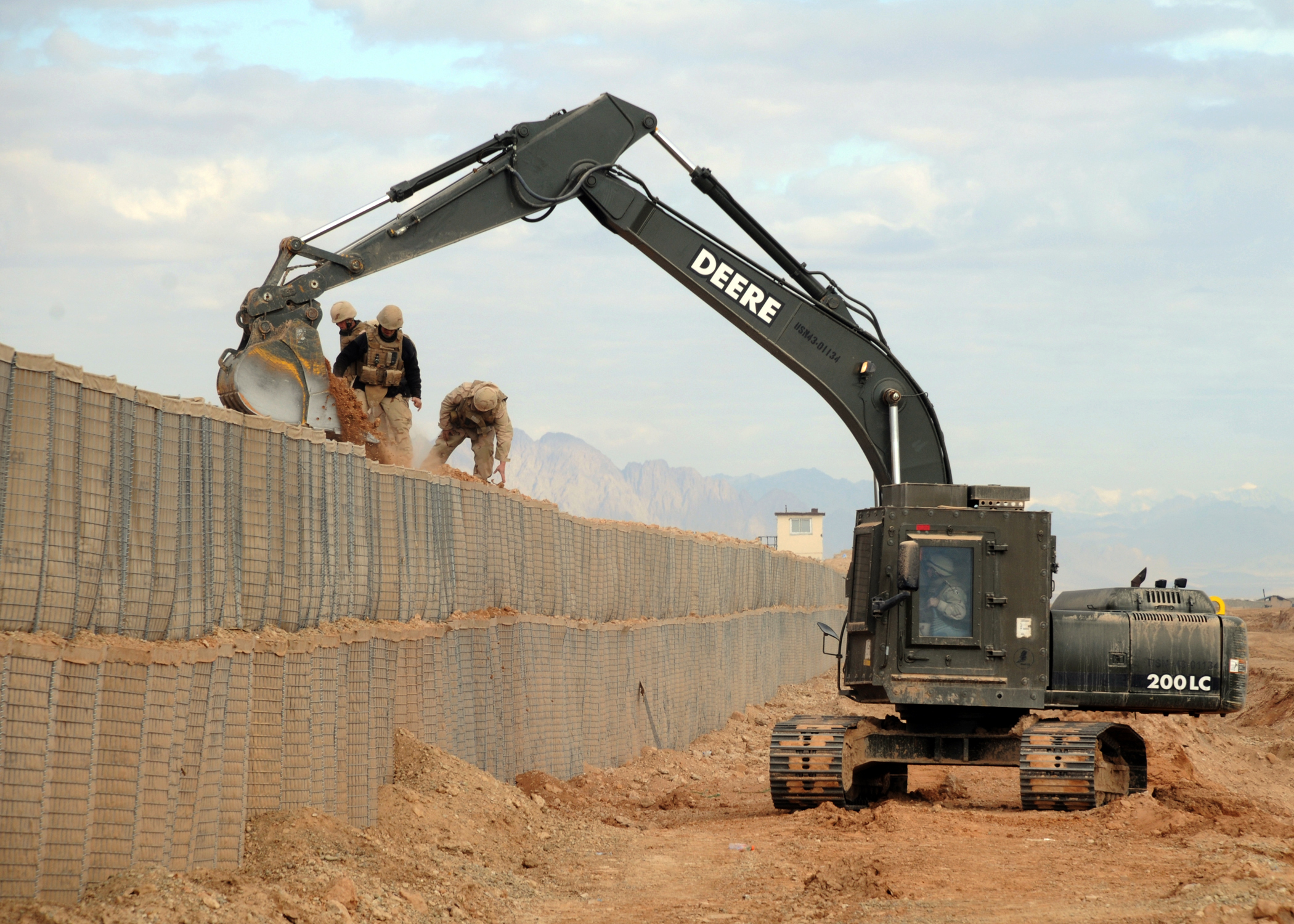 HELMAND PROVINCE, Afghanistan (Jan. 25, 2009) Seabees assigned to Naval Mobile Construction Battalion (NMCB) 7 place dirt into Hescoe protective barriers utilizing an up-armored excavator at a forward operating base. NMCB-7 is deployed to Afghanistan to provide contingency construction support to Alliance forces supporting NATO International Security Assistance Forces.